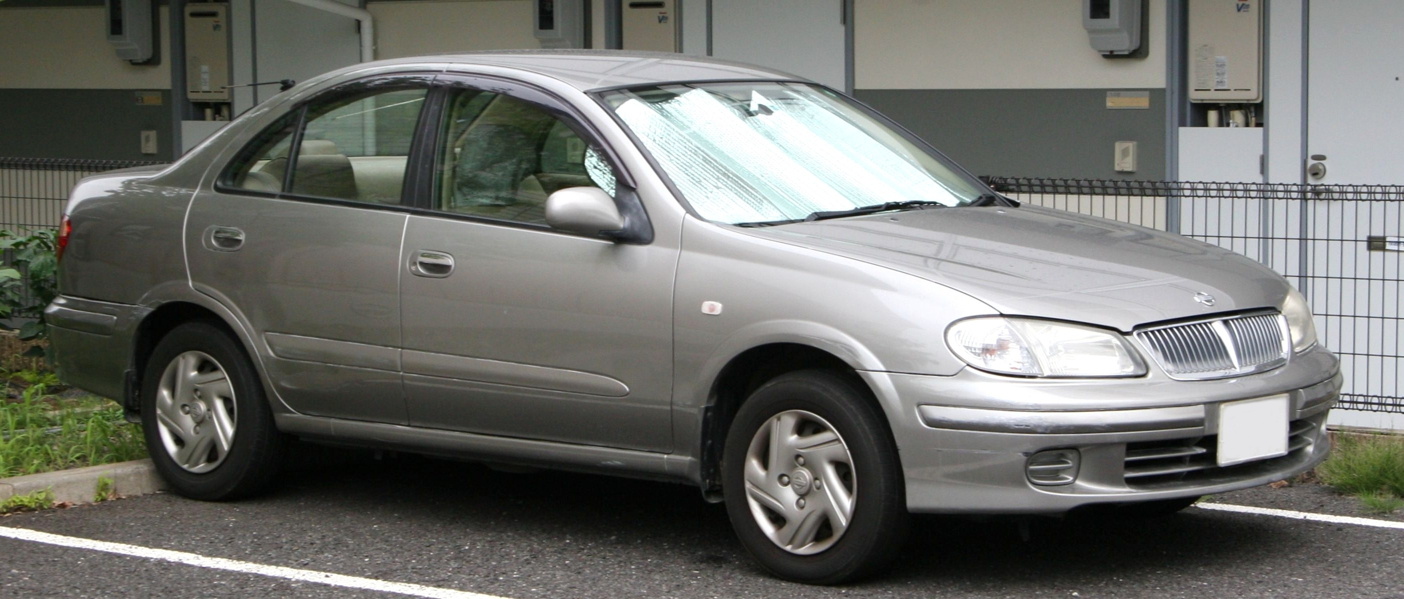 NISSAN BLUEBIRD SYLPHY